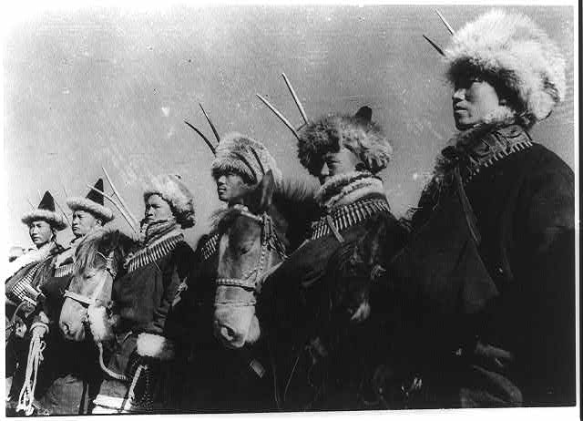 Republic of China Ma Jia Jun (Ma Family Army) muslim cavalry of the National Revolutionary Army under General Ma Bufang.